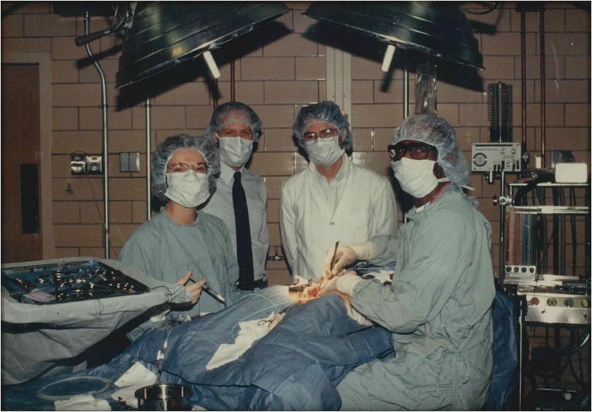 Nabel conducts early gene therapy trials at the University of Michigan